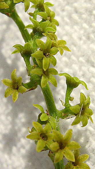 Dioscorea sincorensis R. Knuth